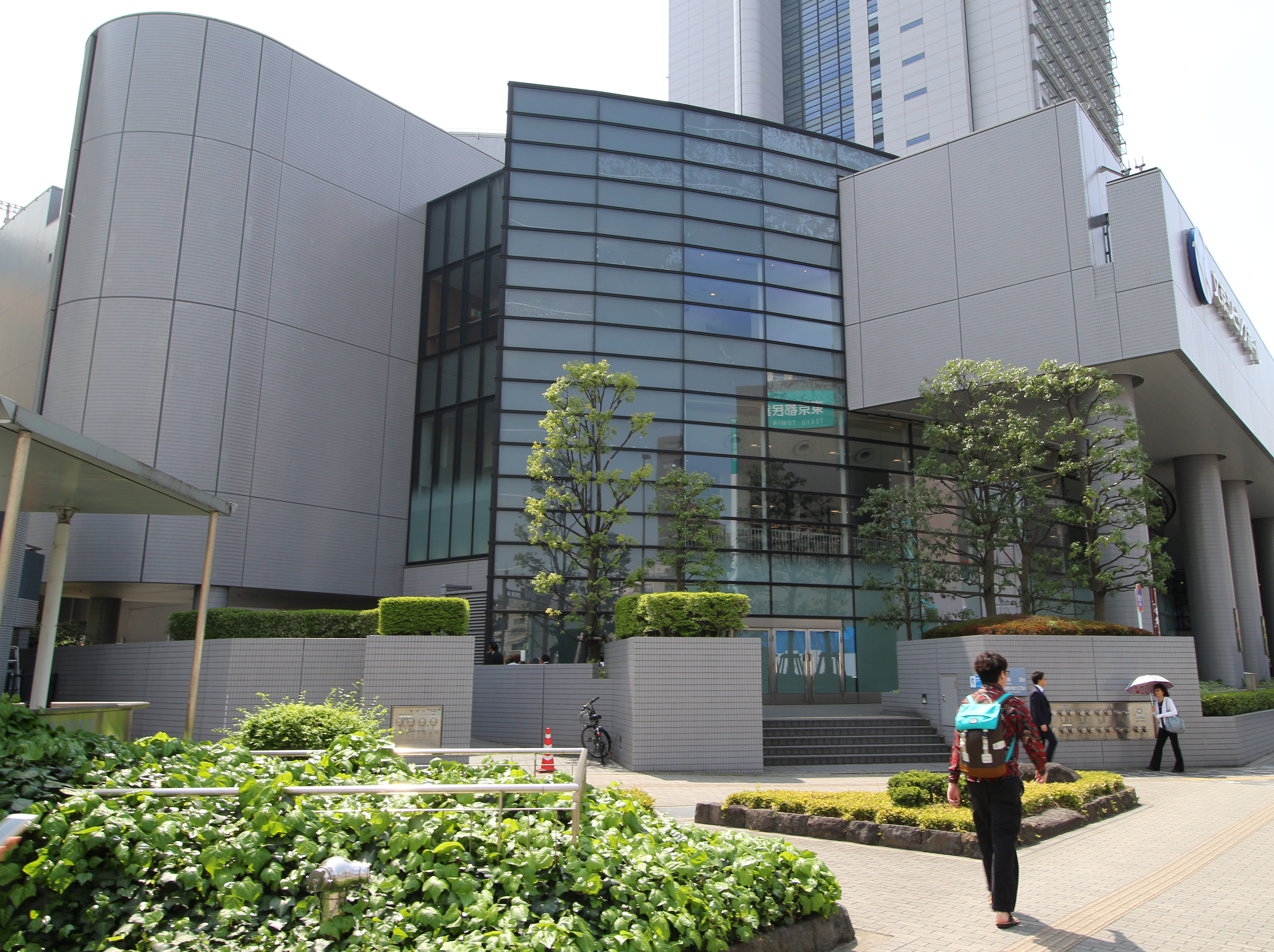 Bunkyo Auditorium in Tokyo, Japan.